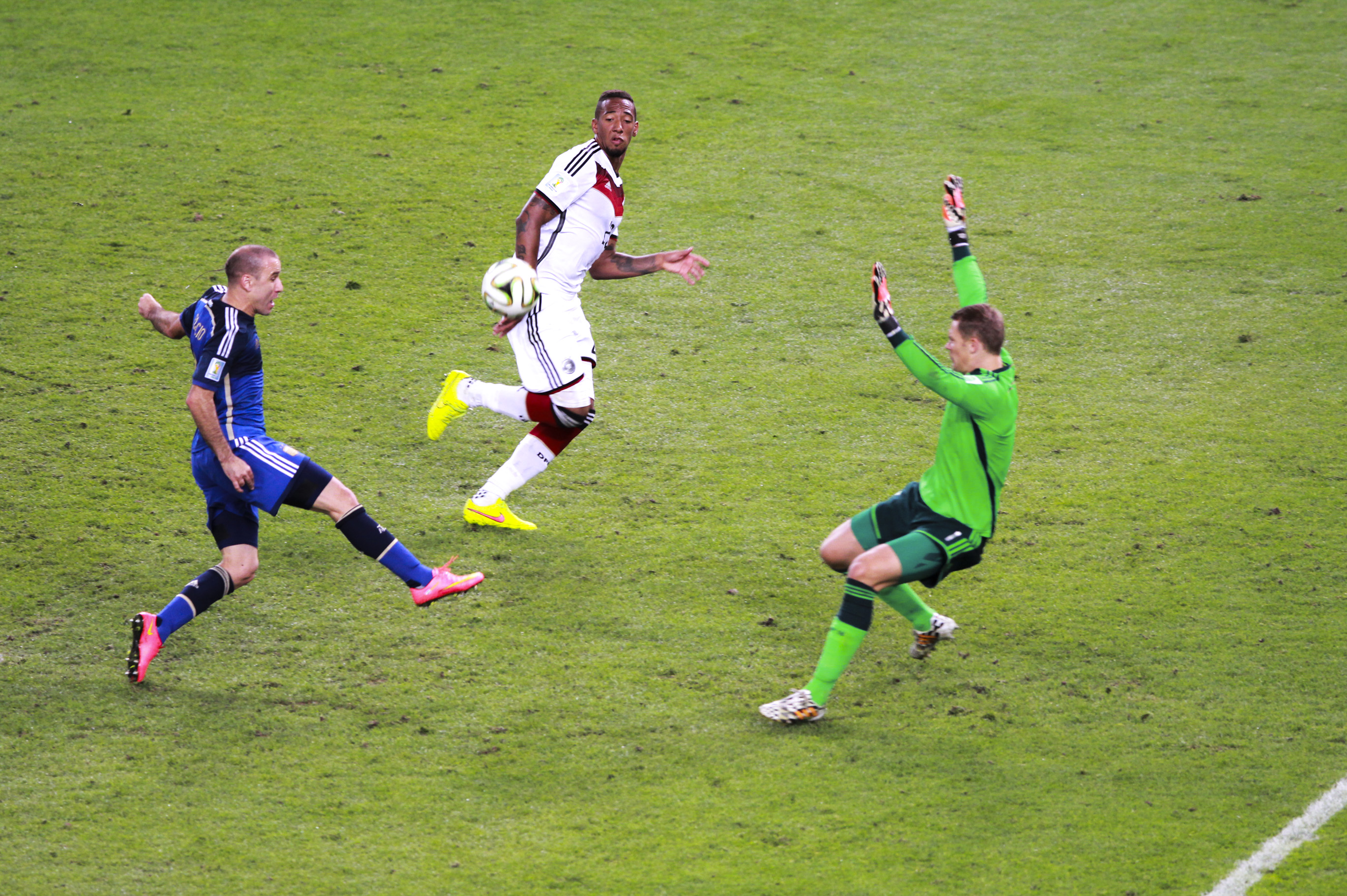 Rodrigo Palacio tries to lob the ball over Manuel Neuer in the final match of World Cup 2014 between Germany and Argentina 2014-07-13